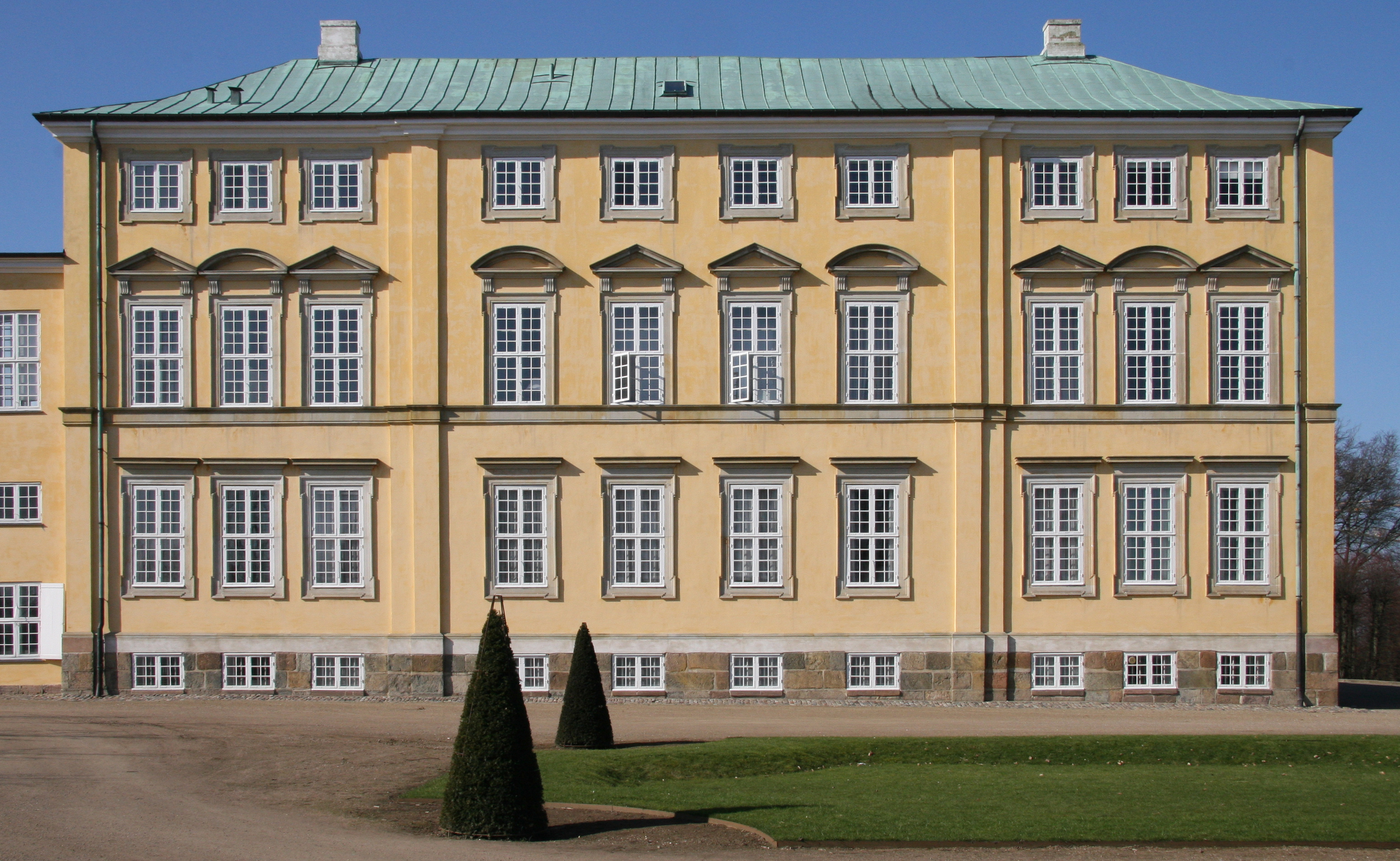 Frederiksberg Slotskirke, Frederiksberg, Copenhagen, Denmark. Eastwing where the church is located.